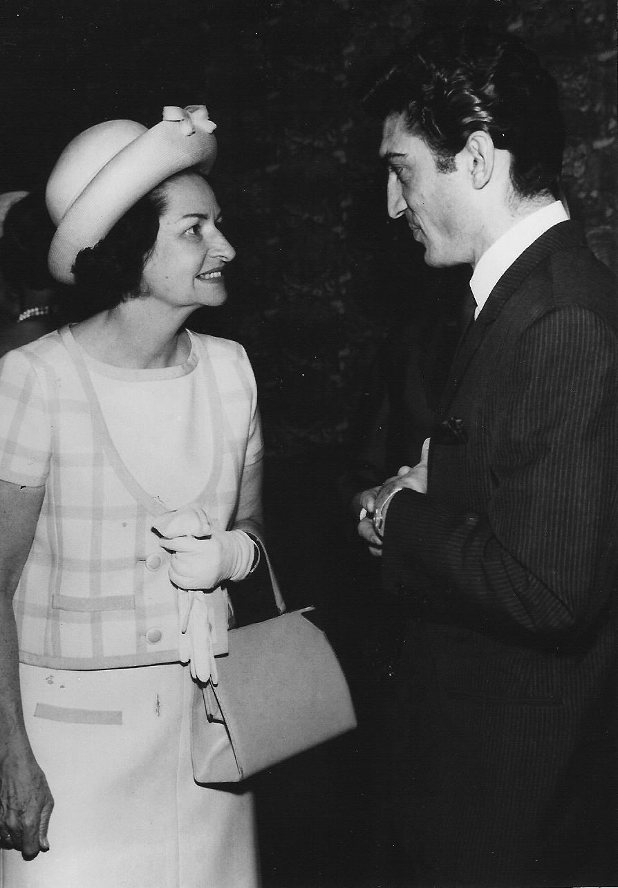 circa 1965 wire photo of Sergio Franchi meeting First Lady, Lady Bird Johnson